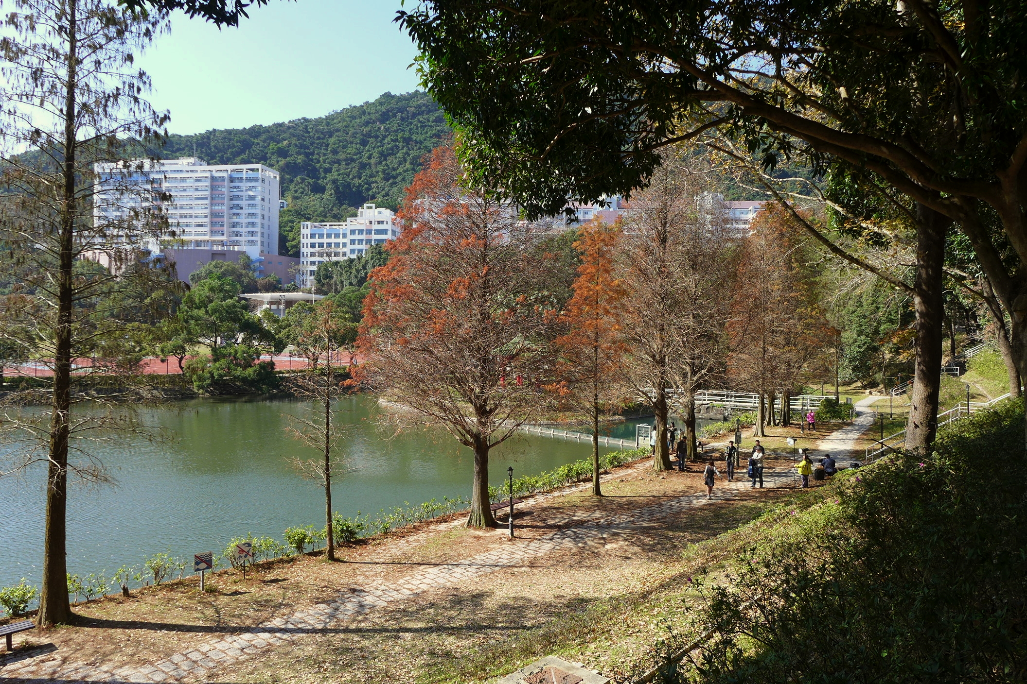 Lake Ad Excellentiam tree view